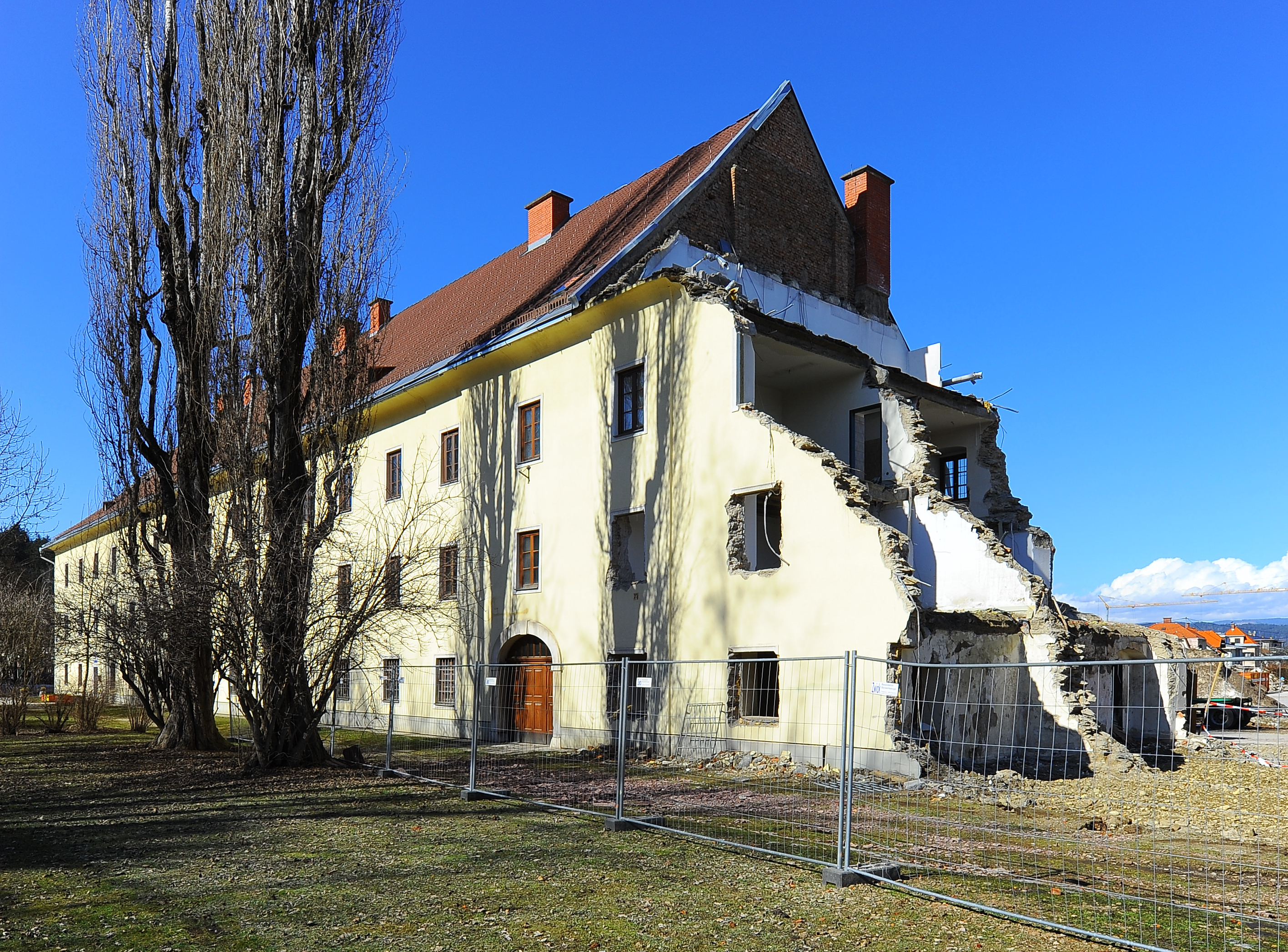 Demolition of the former barracks “Waisenhauskaserne”, seen from the Maria Theresia Park, 5th district Sankt Veiter Vorstadt of the Carinthian capital Klagenfurt on the Lake Woerth, Carinthia, Austria